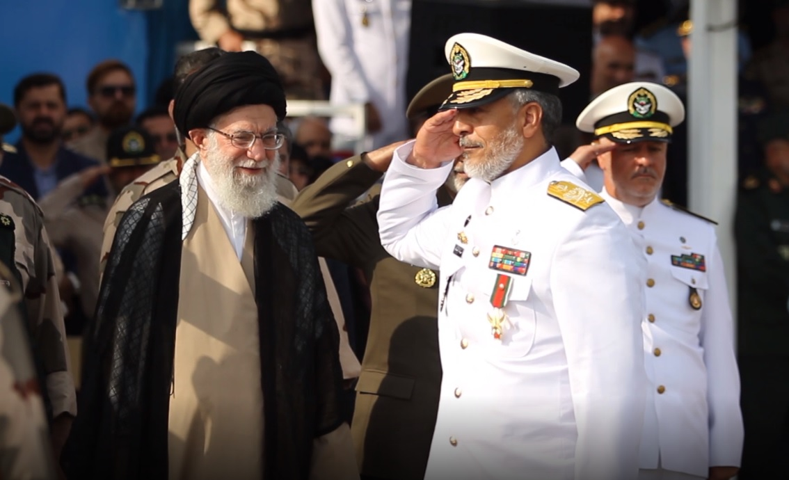 Admiral Sayyari Receives 1st grade Order of Fath From Ayatollah Khamenei.